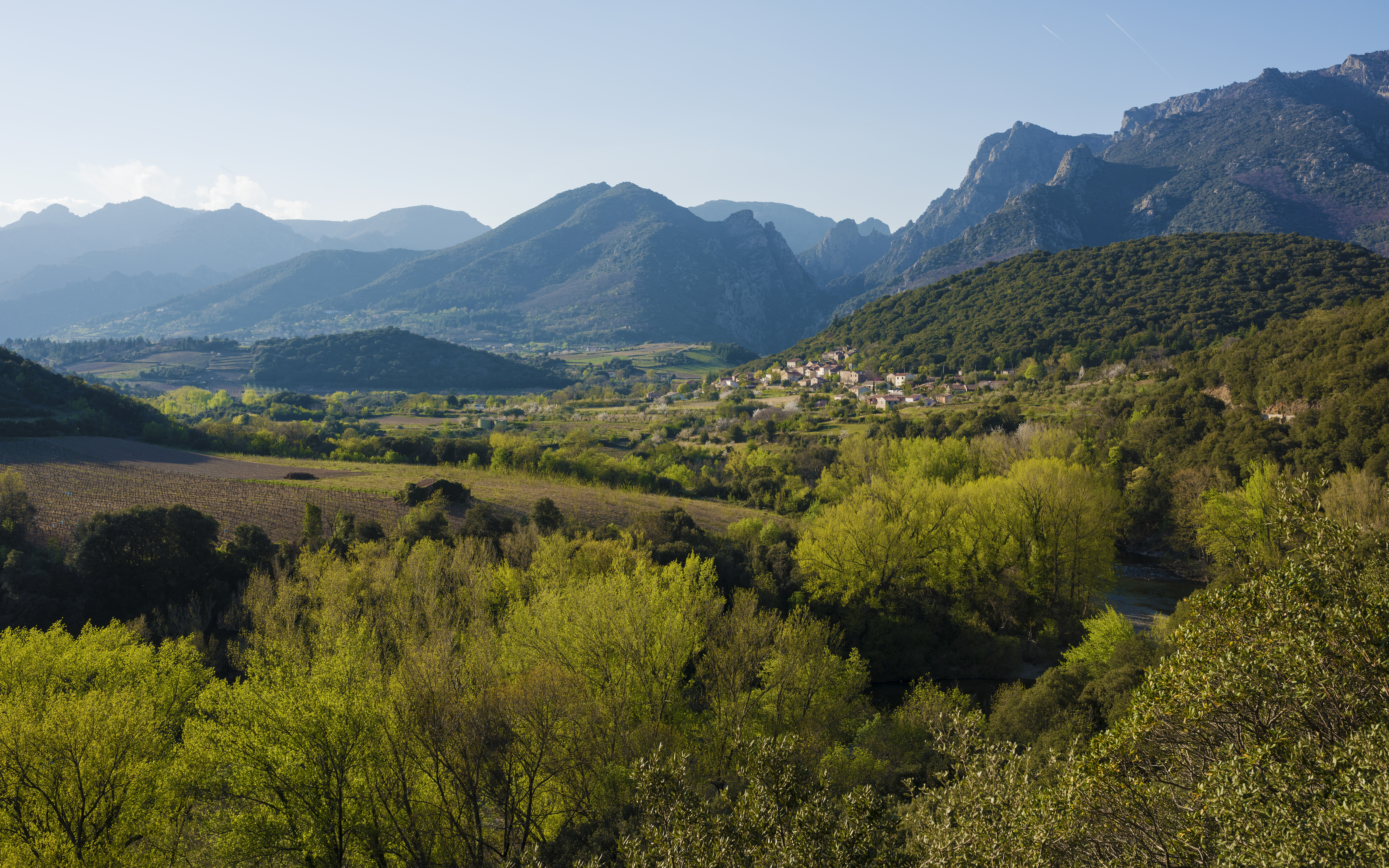 The hamlet of Tarassac in the Orb River valley. Commune of Mons, Hérault, France. Haut-Languedoc Regional Natural Park.